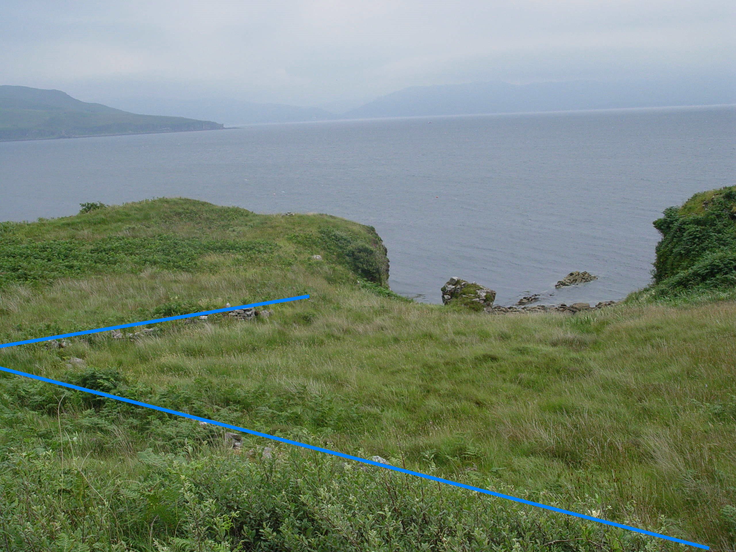 The perimeter wall adjacent to Dun Ringill in Skye, Scotland. The blue line marks the path of the wall foundation that is hidden beneath the vegetation. At the far right of the photo is the northern wall of Dun Ringill. The depression in the center of the photo allows easy access to the sea.